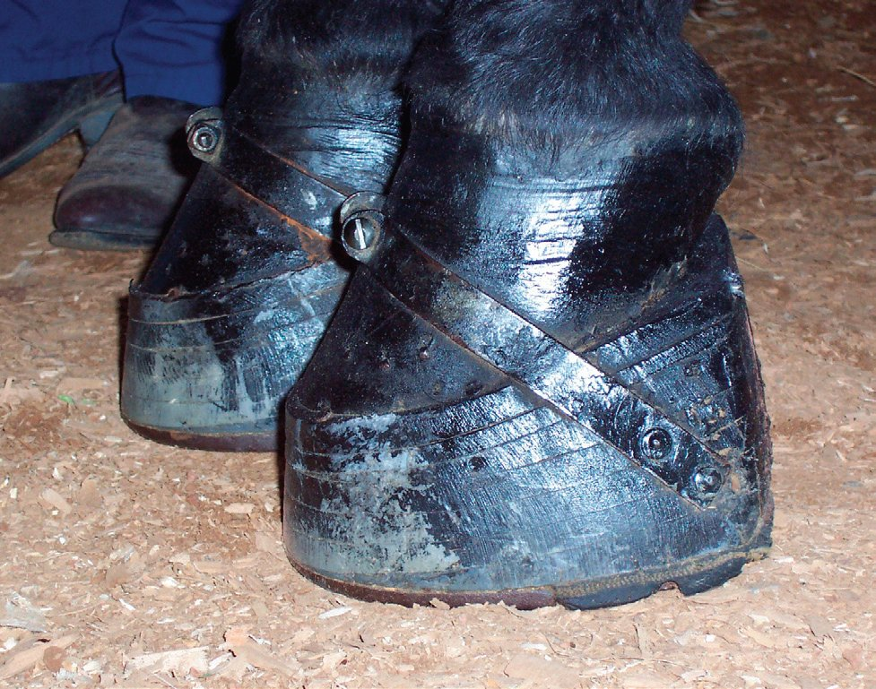 Hooves of a Tennessee Walking Horse, showing built-up padding and hoof band, sometimes called "Stacks"